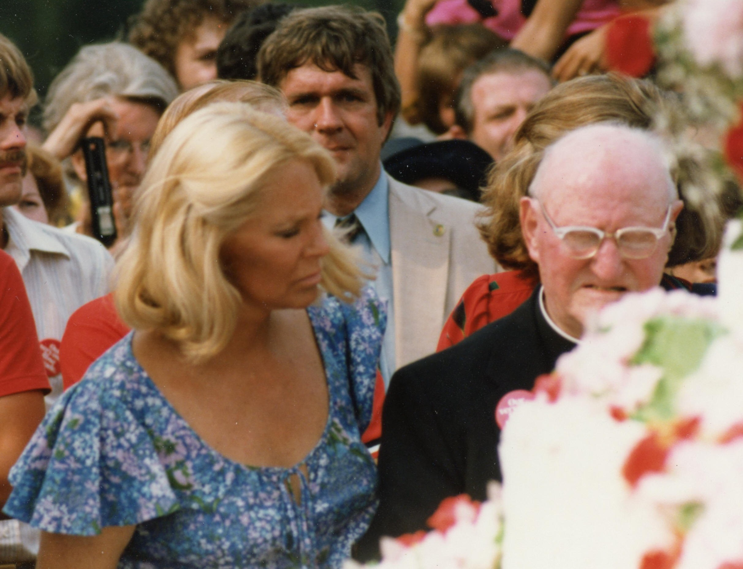 Joan Kennedy in Boston